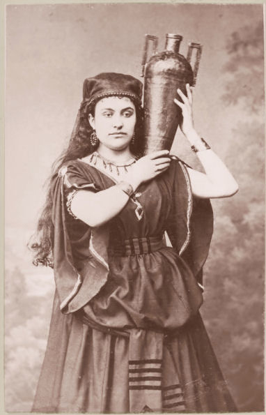 Soprano Amalie Materna as Rachel in Fromental Halévy's La Juive.